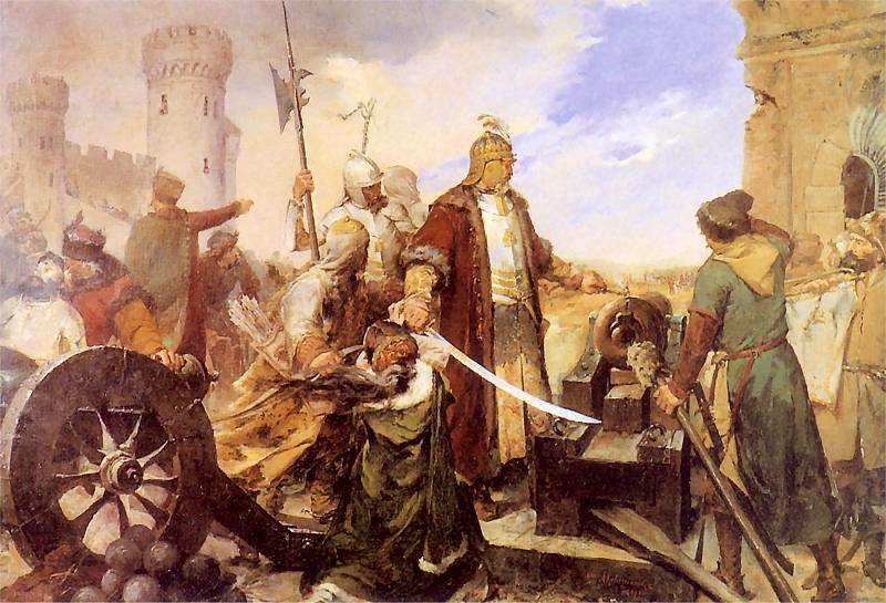 Defence of Olsztyn (Silesia) in 1587